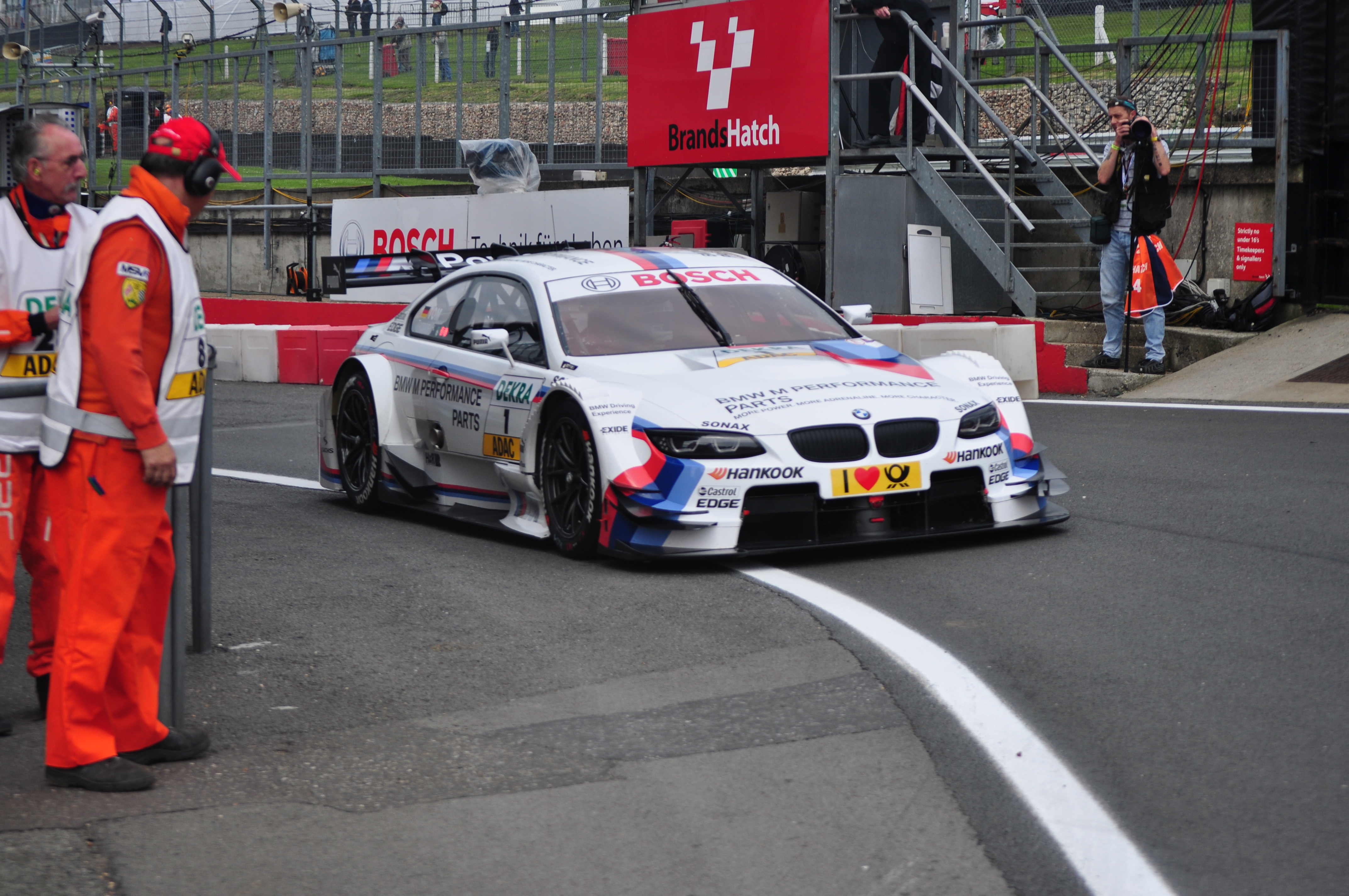 DTM Brands Hatch